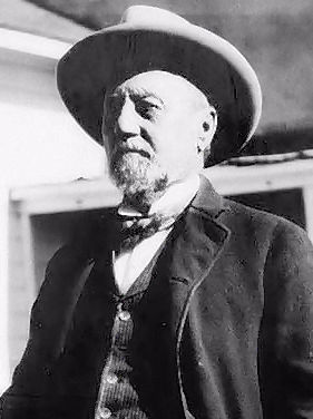 Henry Hooker at his Sierra Bonita Ranch near present-day Willcox, Arizona.